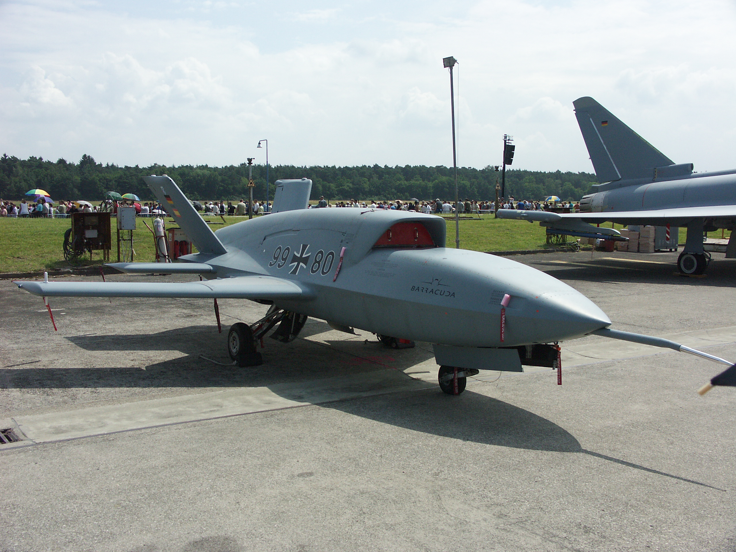 Familien-Tag bei EADS in Manching 10.07.06 Photo by Jean-Patrick Donzey